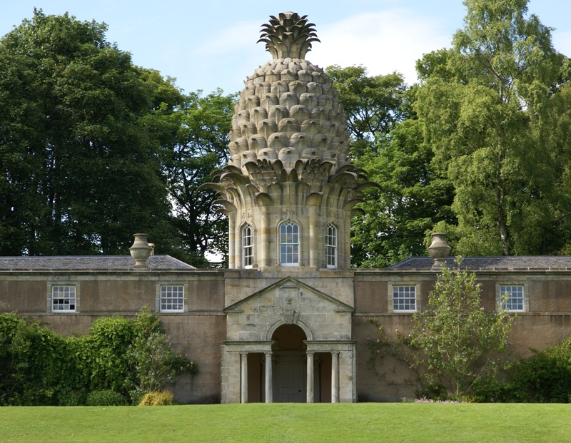 Dunmore Pineapple, near Falkirk, Scotland